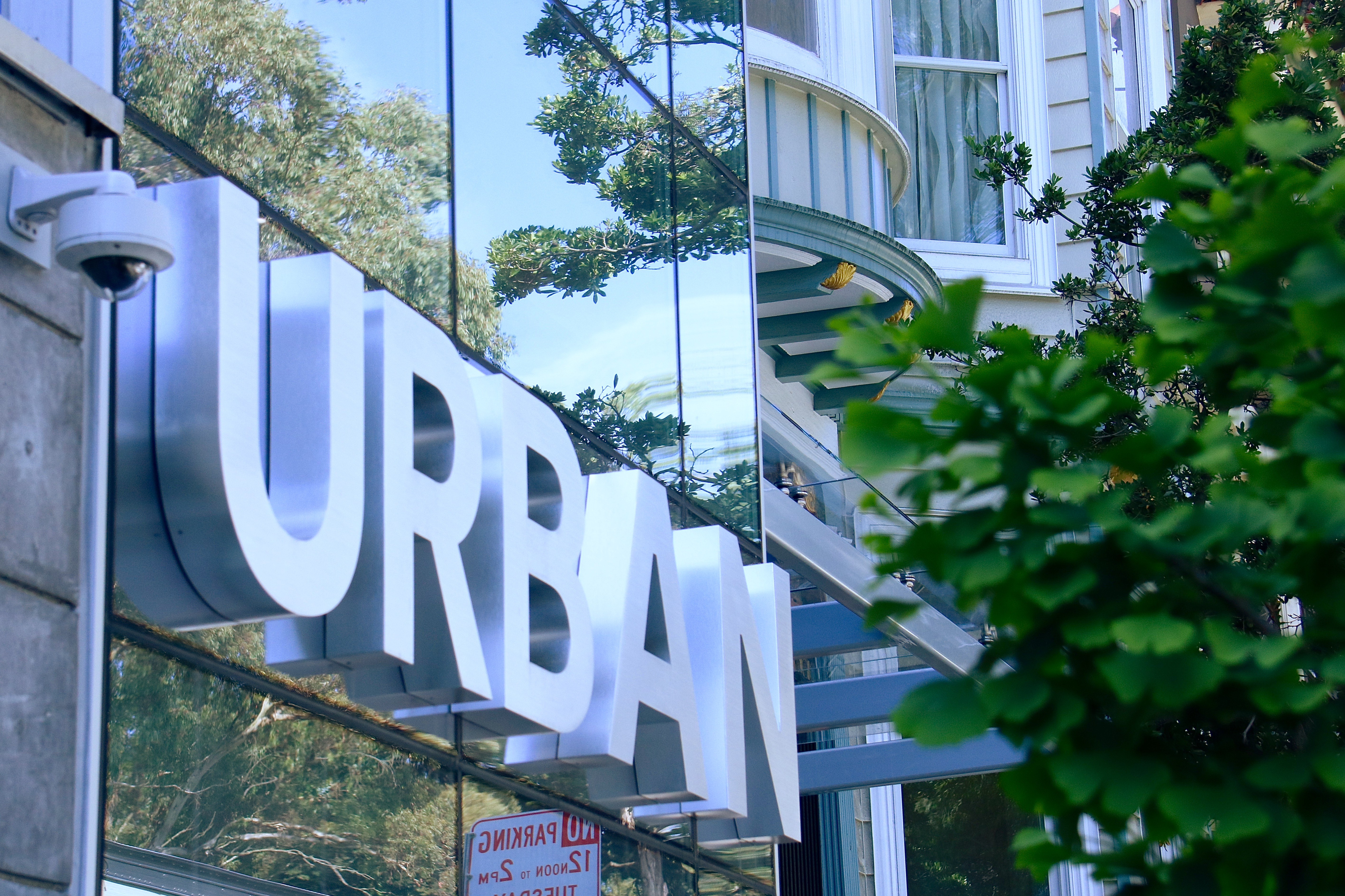 Salkind Center Entrance